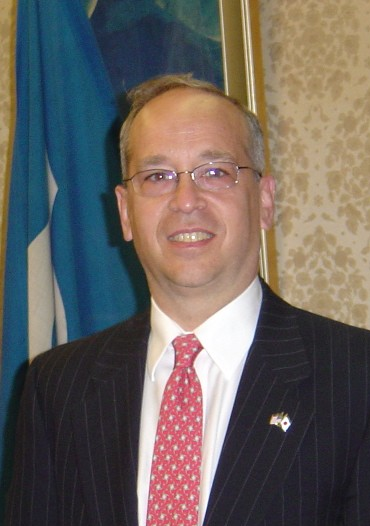 Daniel R. Russel